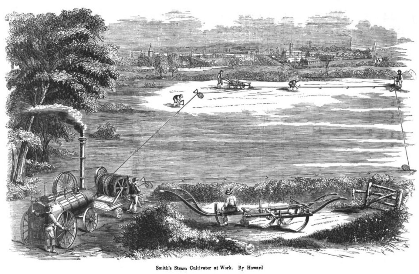 British agriculture, 1860, p. 220